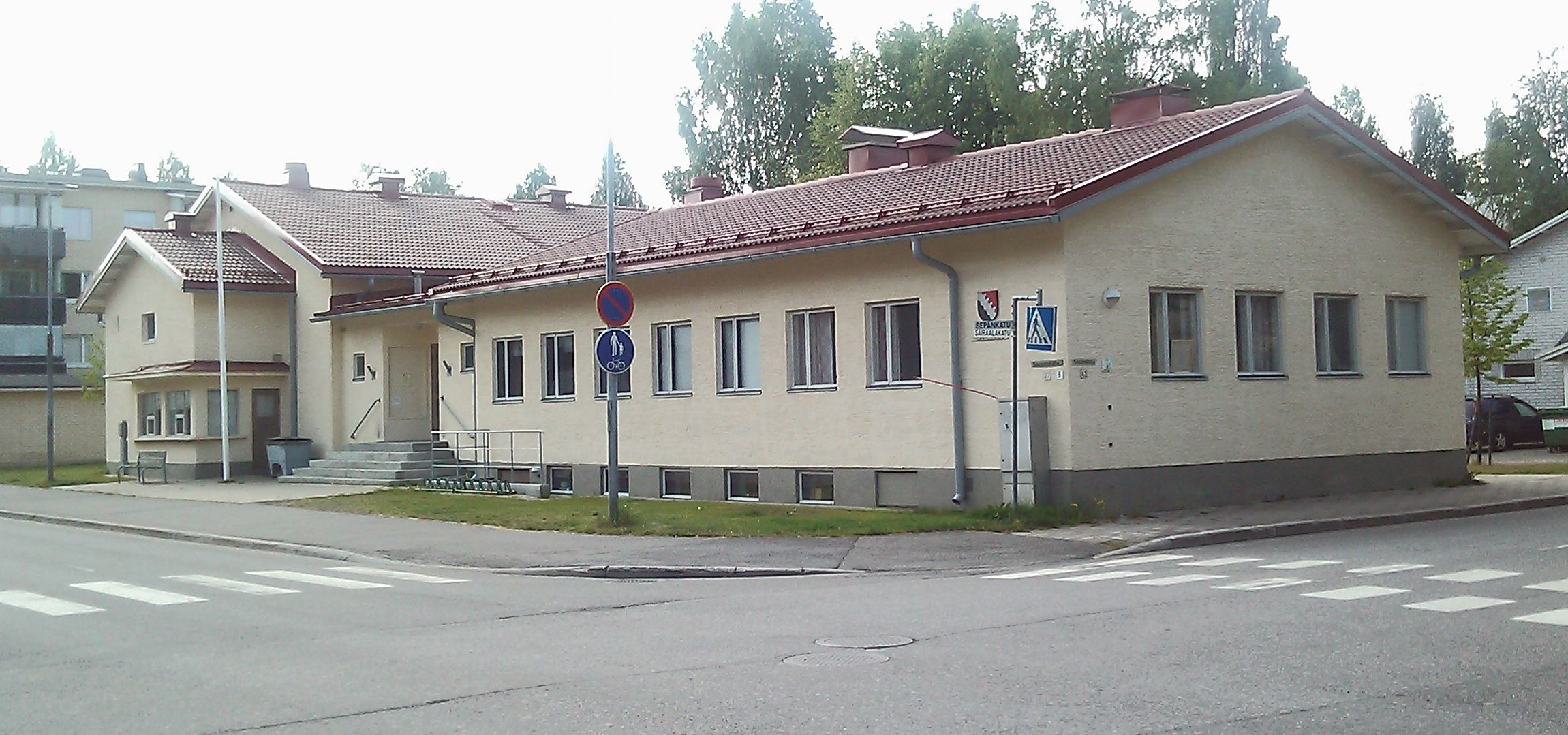 Sepänpiha Senior Center in Joensuu, Finland